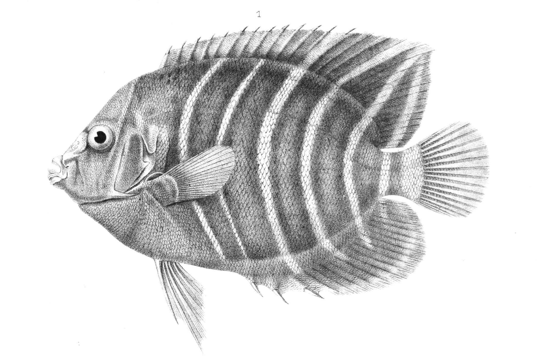 Pomacanthus chrysurus